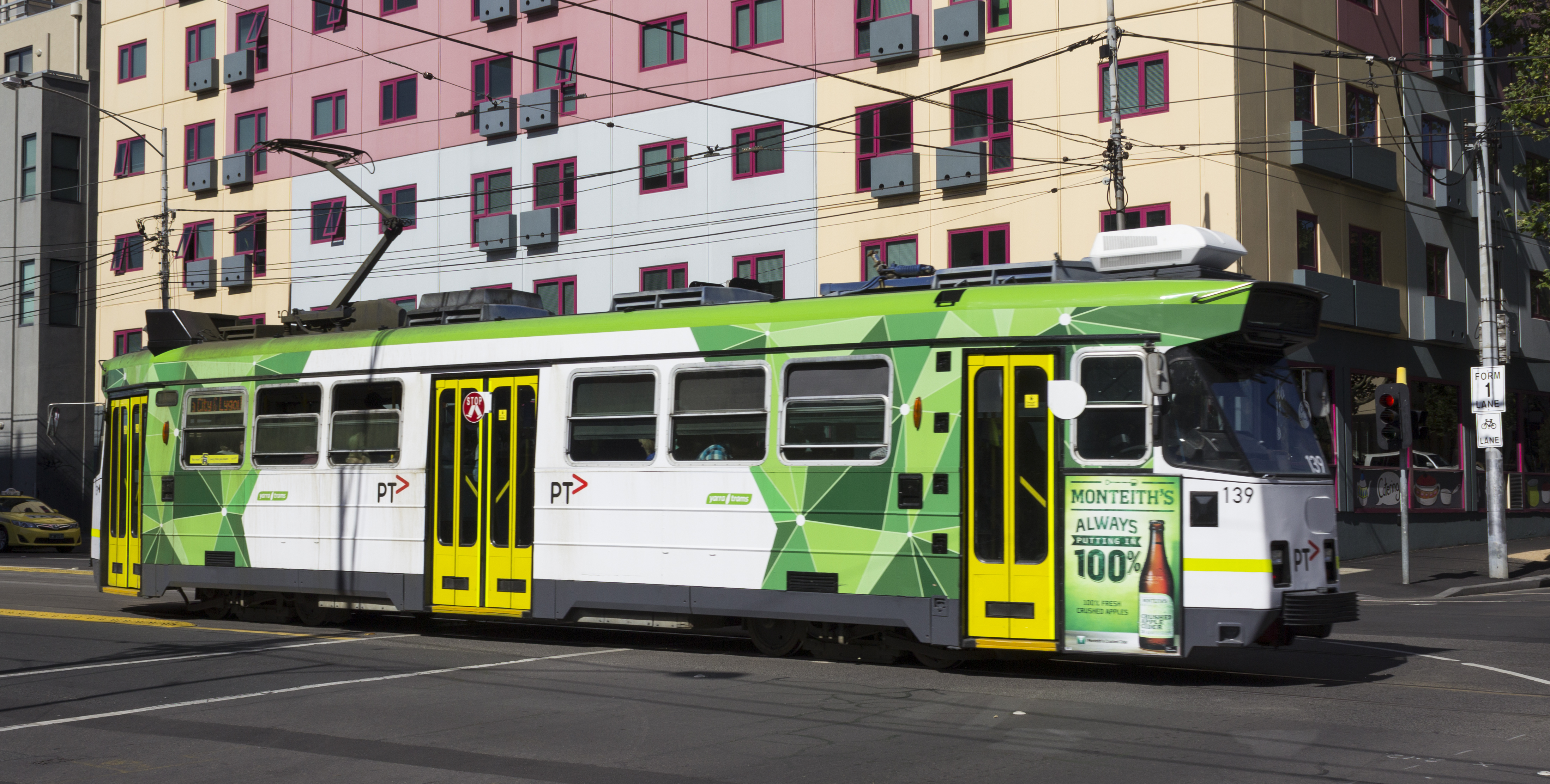 Z3 139 (Melbourne tram) in Swanston St, December 2013